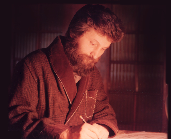 Farid Omran, composing